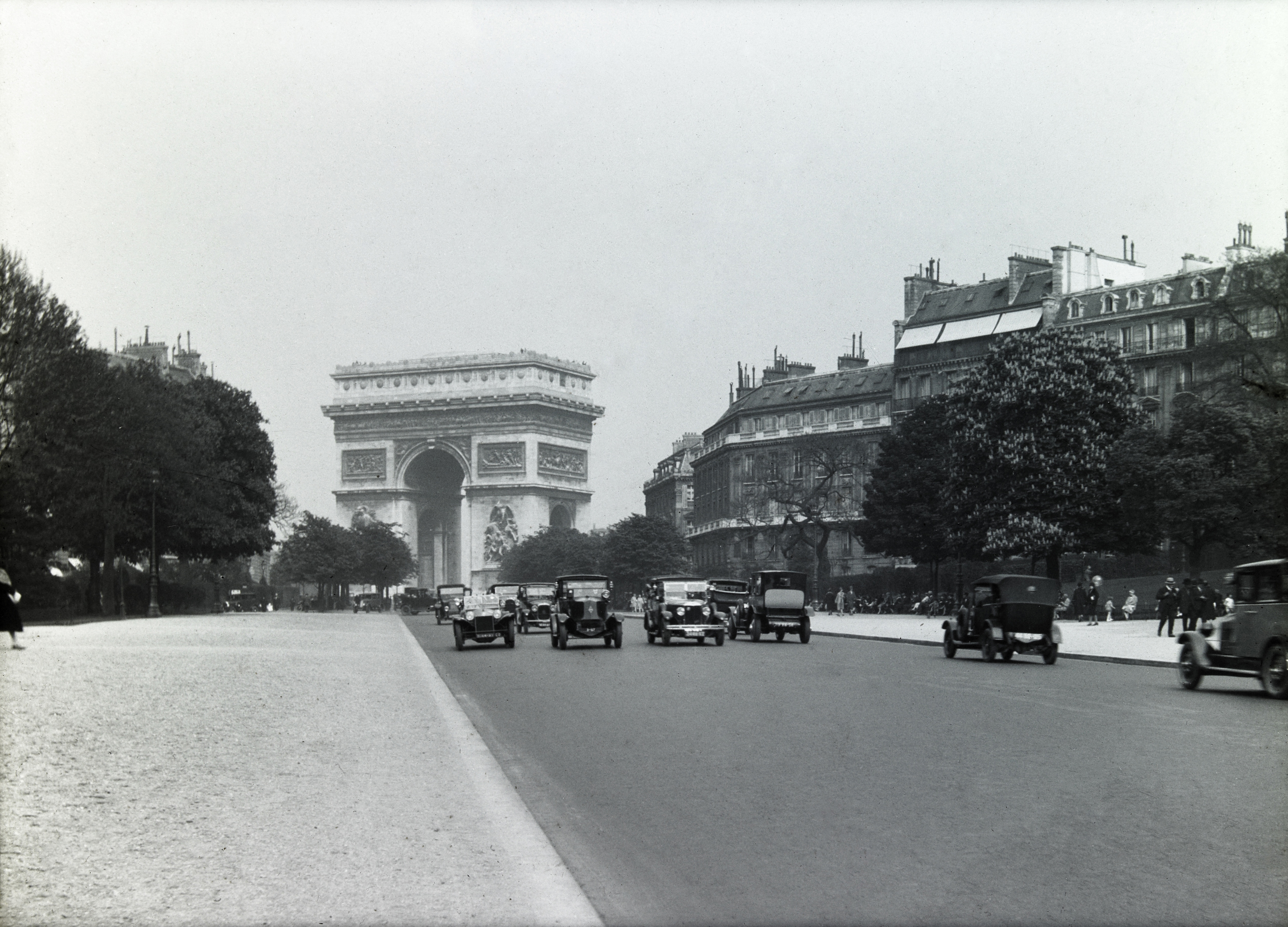 Looking along road with Arc de Triomphe in background, vehicles on road.